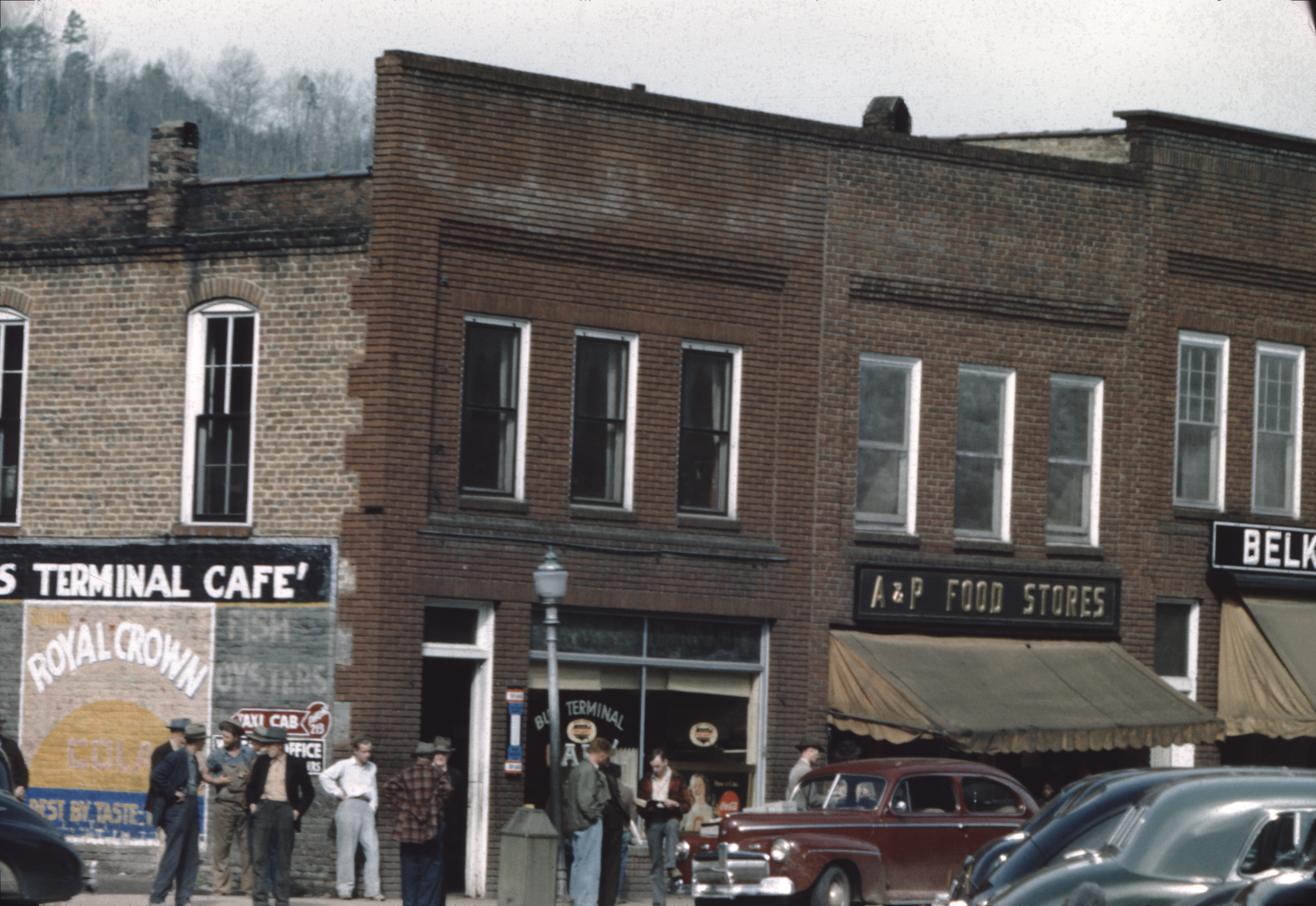 Photography by Victor Albert Grigas (1919-2017)